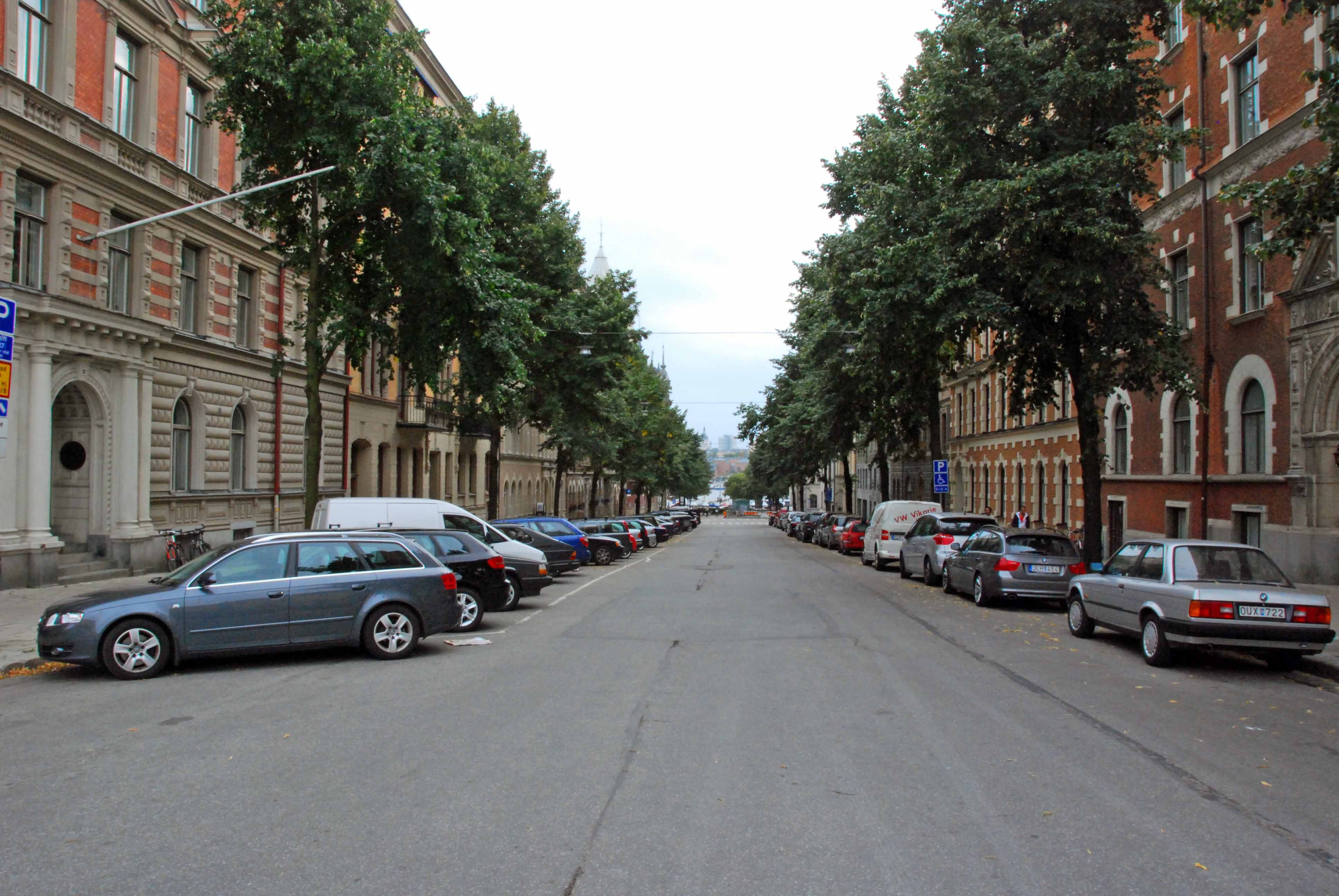 Torstenssonsgatan, Stockholm/Sweden, seen from Storgatan